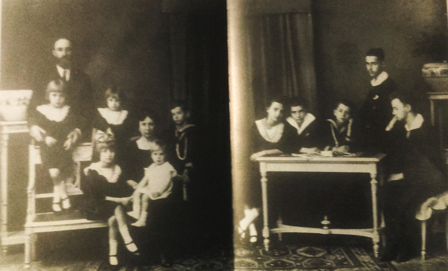 The Morassutti family in 1922 23 ca